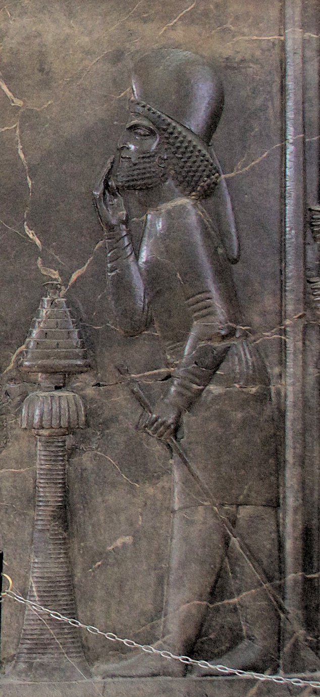 Pharnaces